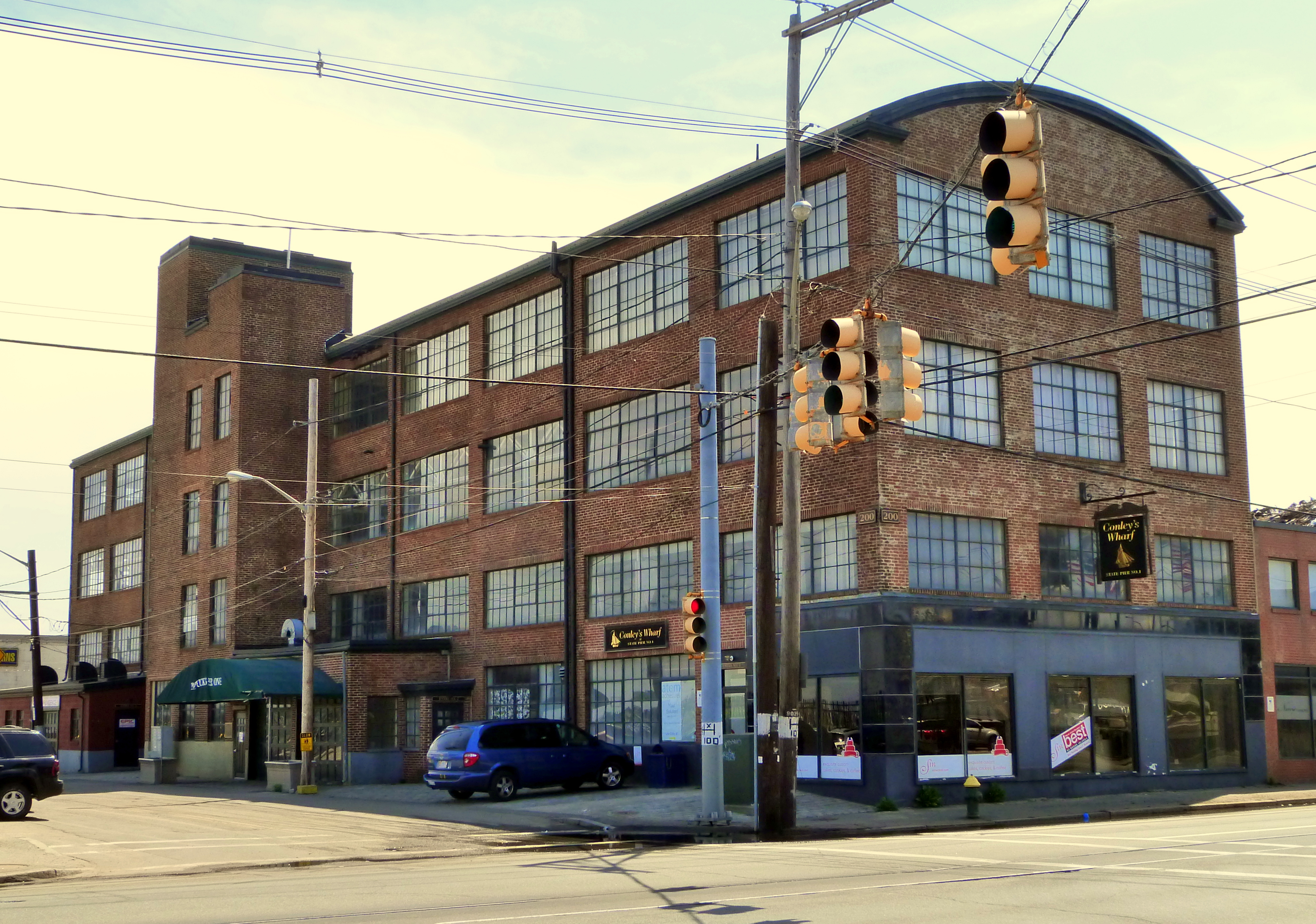 The historic Providence Gas Company Purifier House (built 1900), located at 200 Allens Avenue in Providence, Rhode Island, United States, is listed on the US National Register of Historic Places.